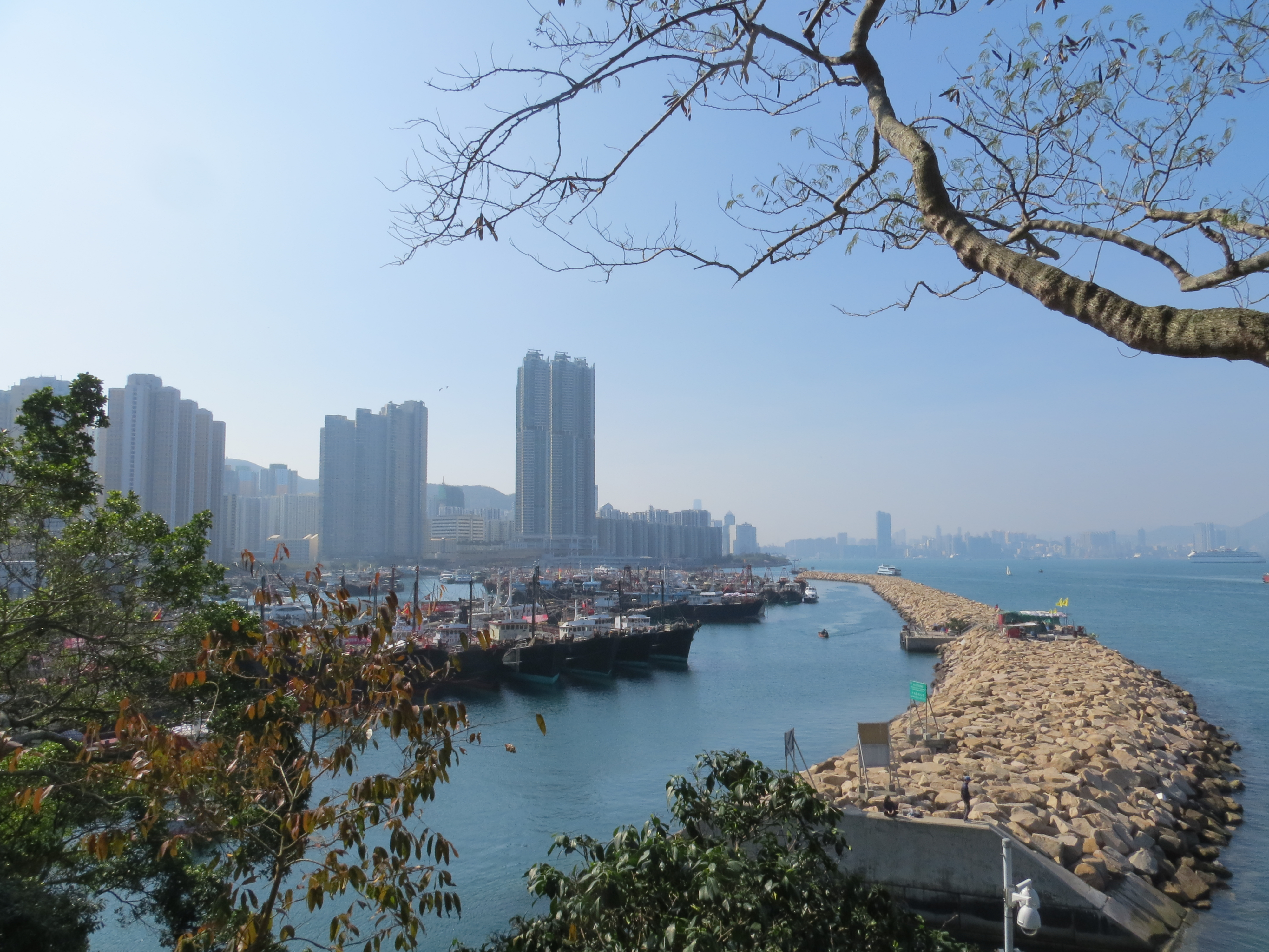 The dam of the Shaukeiwan Typhoon Shelter, Hong Kong.